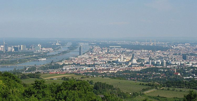 Panoramic image of Vienna